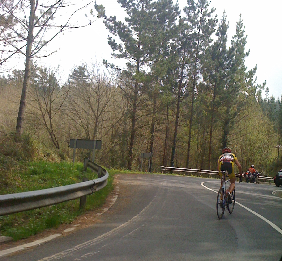 Eduard Prades in the last kilometres of Memorial Valenciaga 2012.